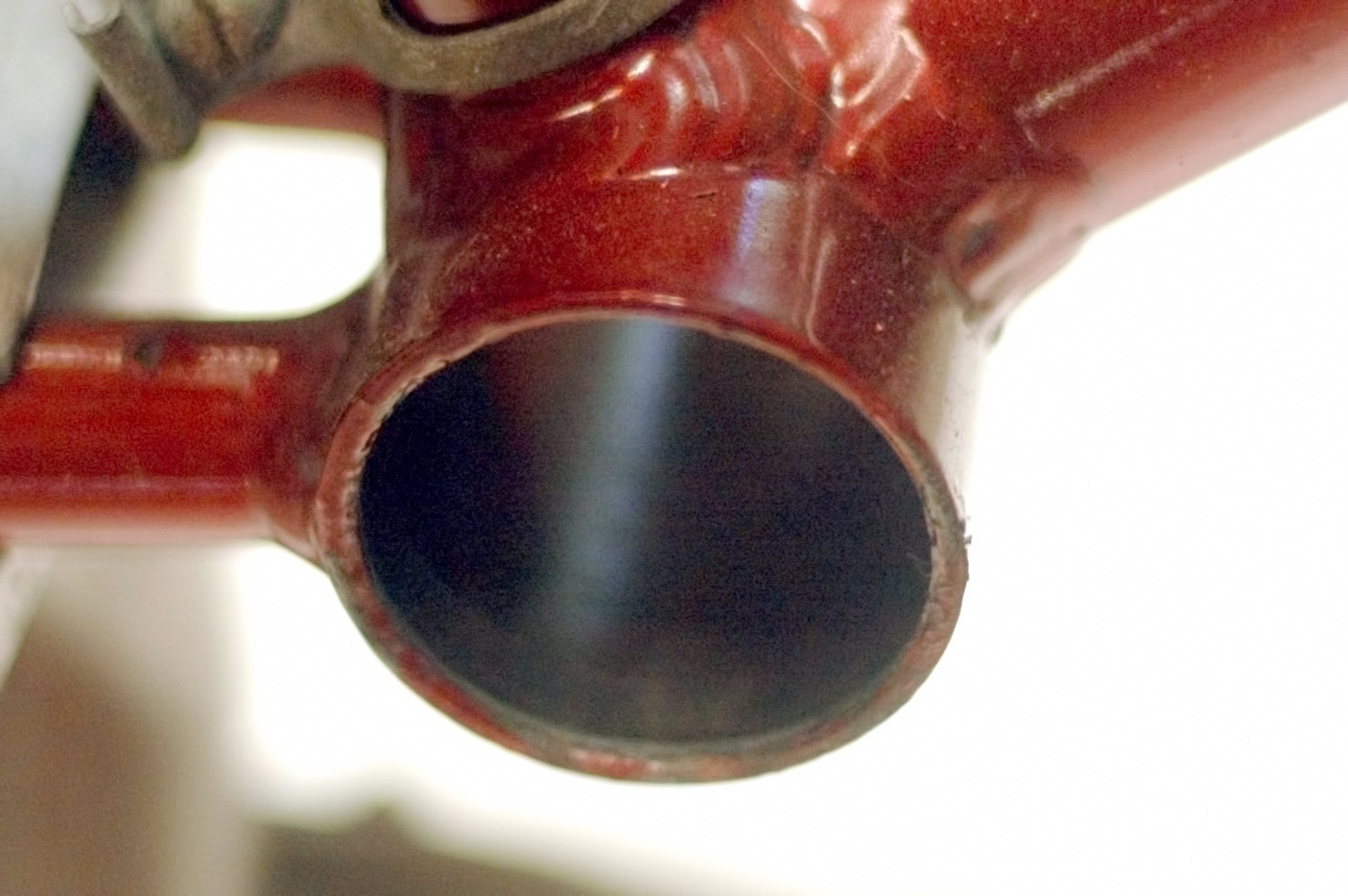 Plain (no thread) shell for unusual 'Bayliss Wiley Unit Bottom Bracket' used in Royal Enfield Revelation bicycle